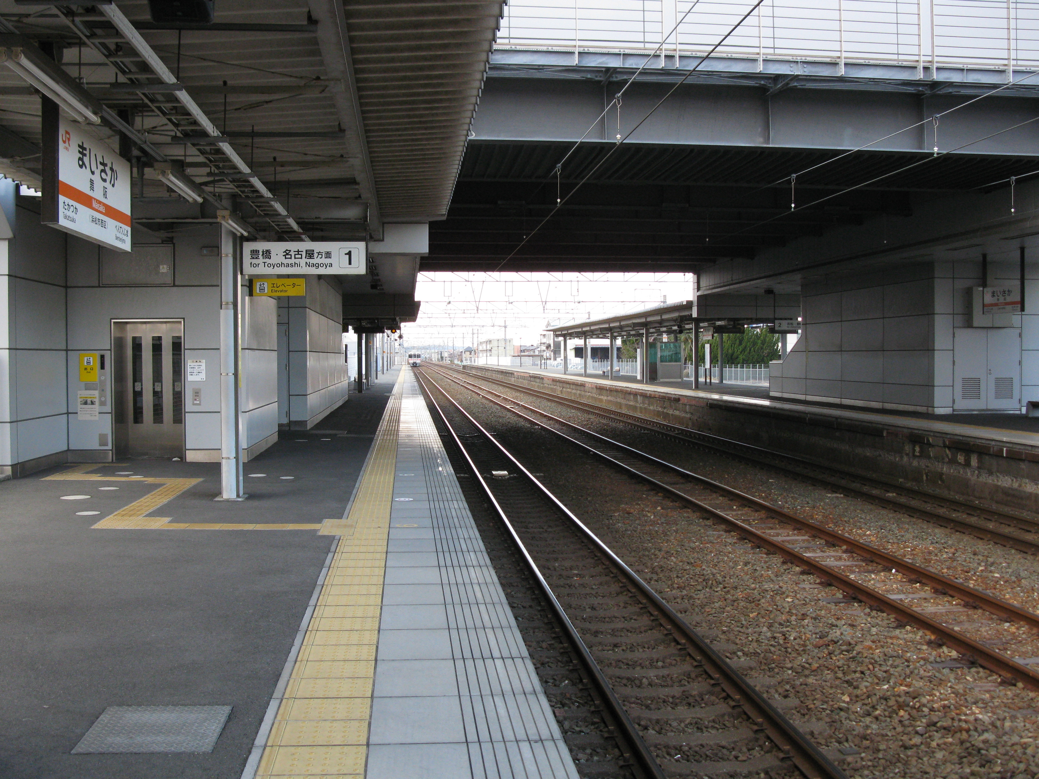 The platforms at Maisaka Station on the Central Japan Railway(JR Central) Tōkaidō Main Line in Hamamatsu city, Shizuoka prefecture, Japan